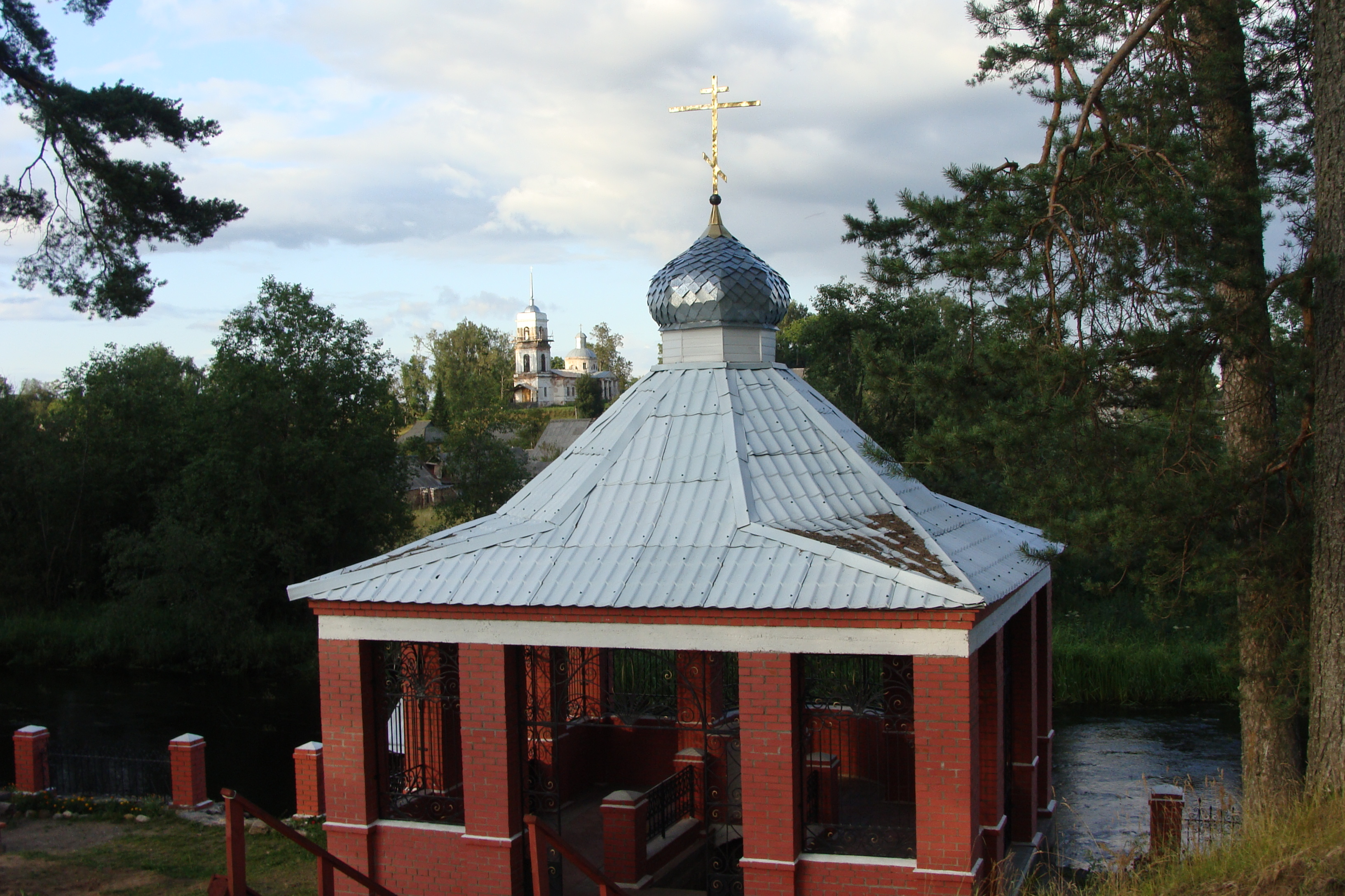 Rozhdestvo, Tverskaya oblast', Russia, 172710